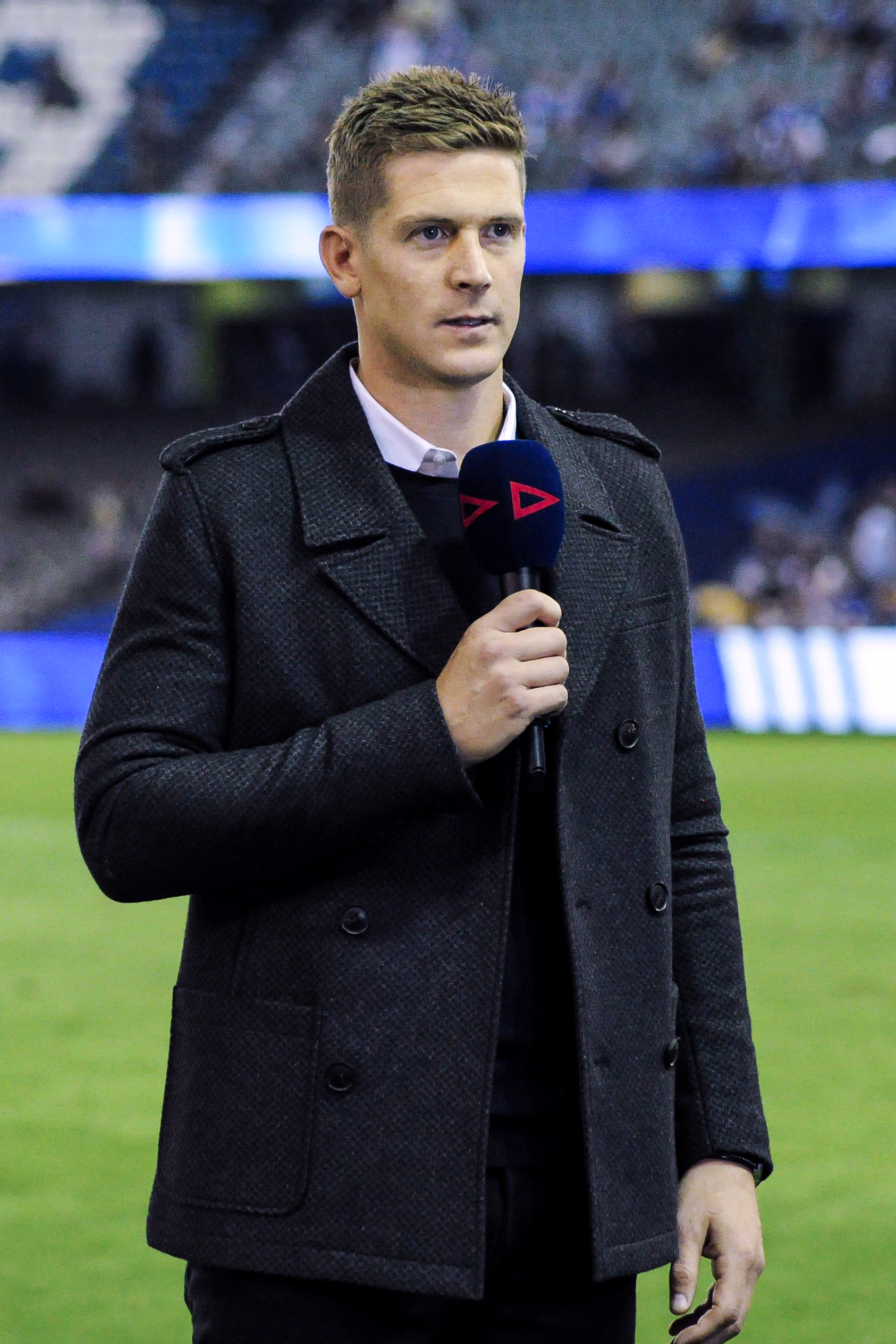 Nick Dal Santo during the AFL round six match between North Melbourne and Port Adelaide on Saturday, 28 April 2018 at Etihad Stadium in Melbourne, Victoria.